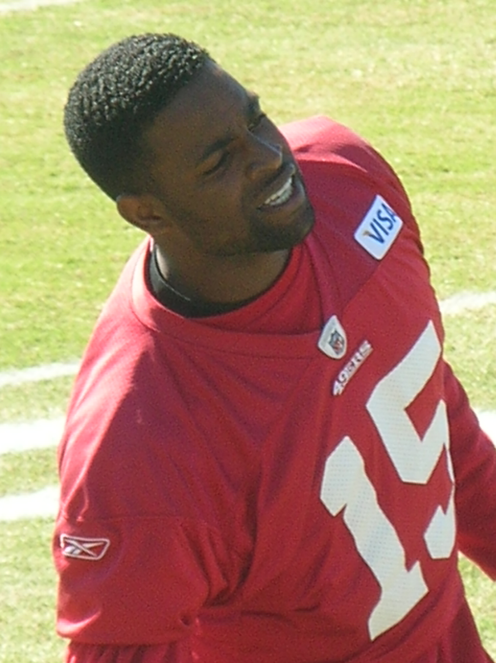 San Francisco 49ers wide receiver Michael Crabtree at training camp in Santa Clara, California.